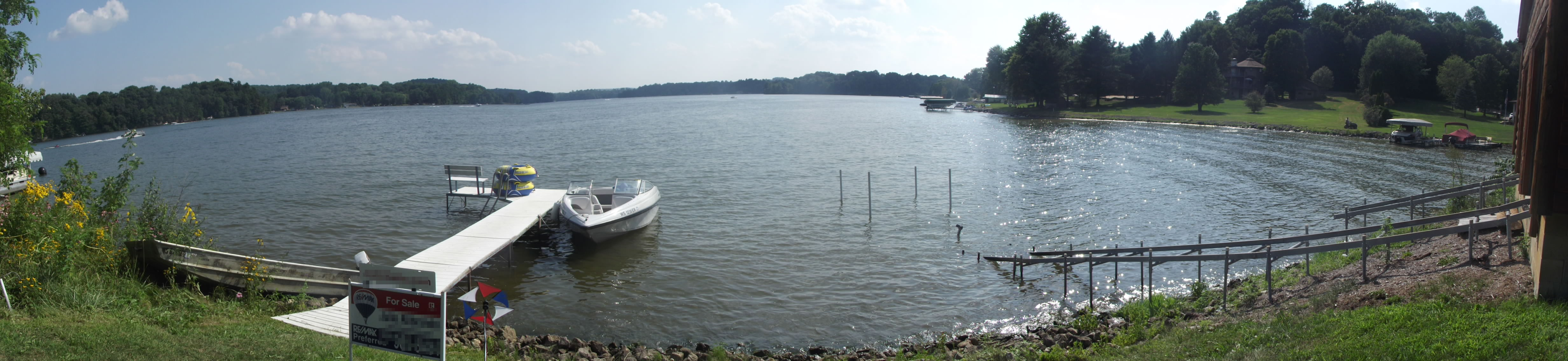 Panorama of Lake Redstone in Wisconsin - Censored out some contact info for privacy reasons.